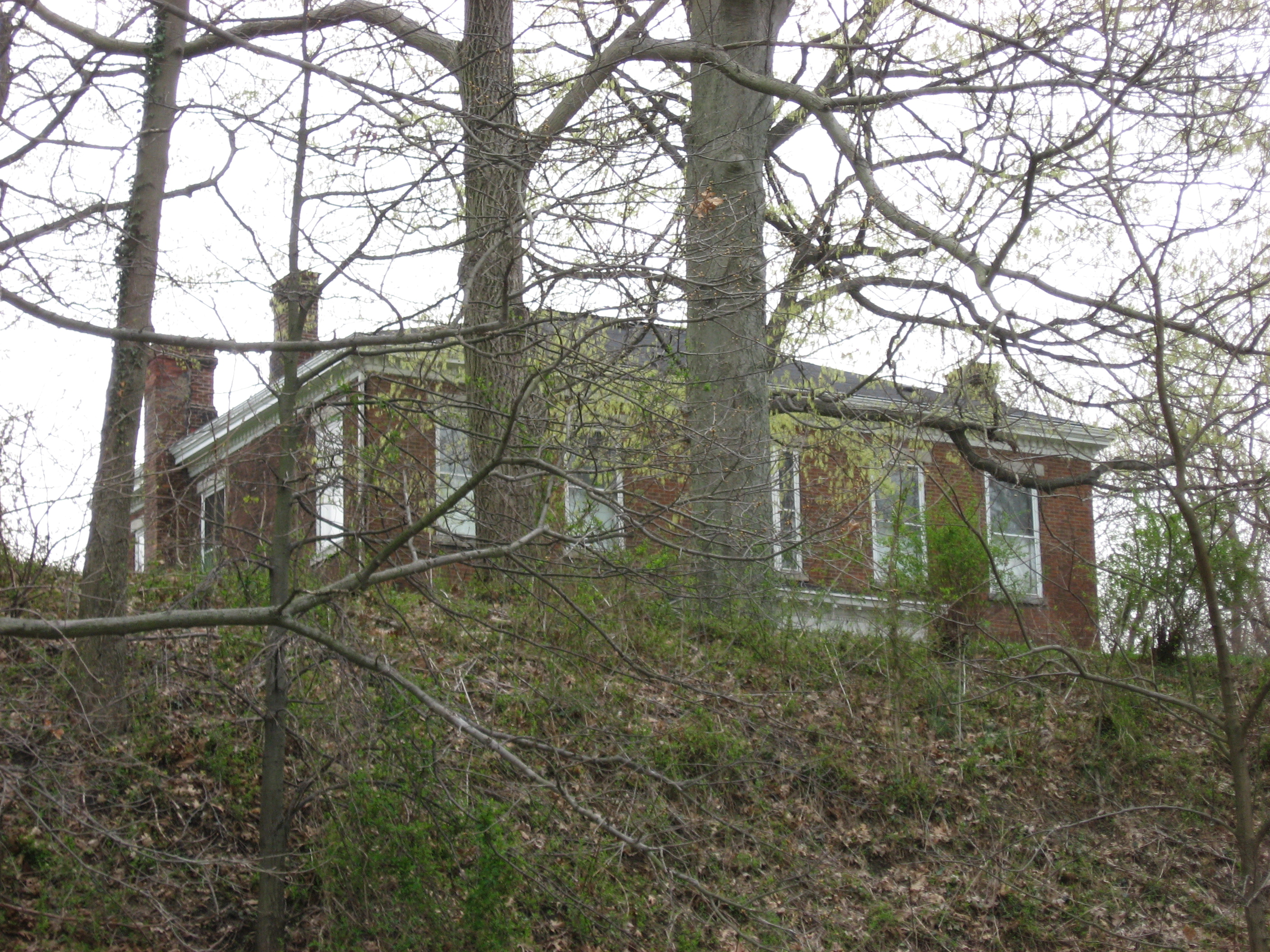 View through the trees of Elmhurst, located at 1606 Pleasant Avenue in Wellsburg, West Virginia, United States. Built in 1848, it is listed on the National Register of Historic Places.